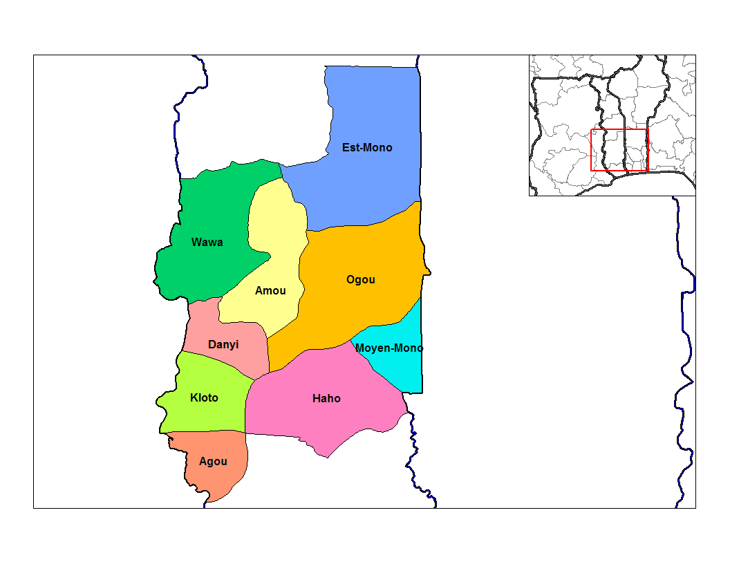 Map of the prefectures of Plateaux region in Togo. Created by Rarelibra 20:26, 27 December 2006 (UTC) for public domain use, using MapInfo Professional v8.5 and various mapping resources.